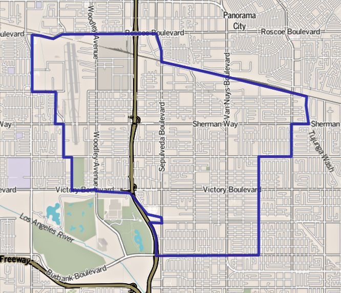 Map of Van Nuys — a community in the central San Fernando Valley, City of Los Angeles, California. As delineated by the Los Angeles Times